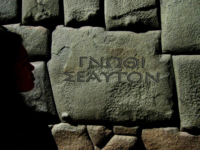 Gnothi seauton (Know thyself). Edited in photoshop. See original photo here